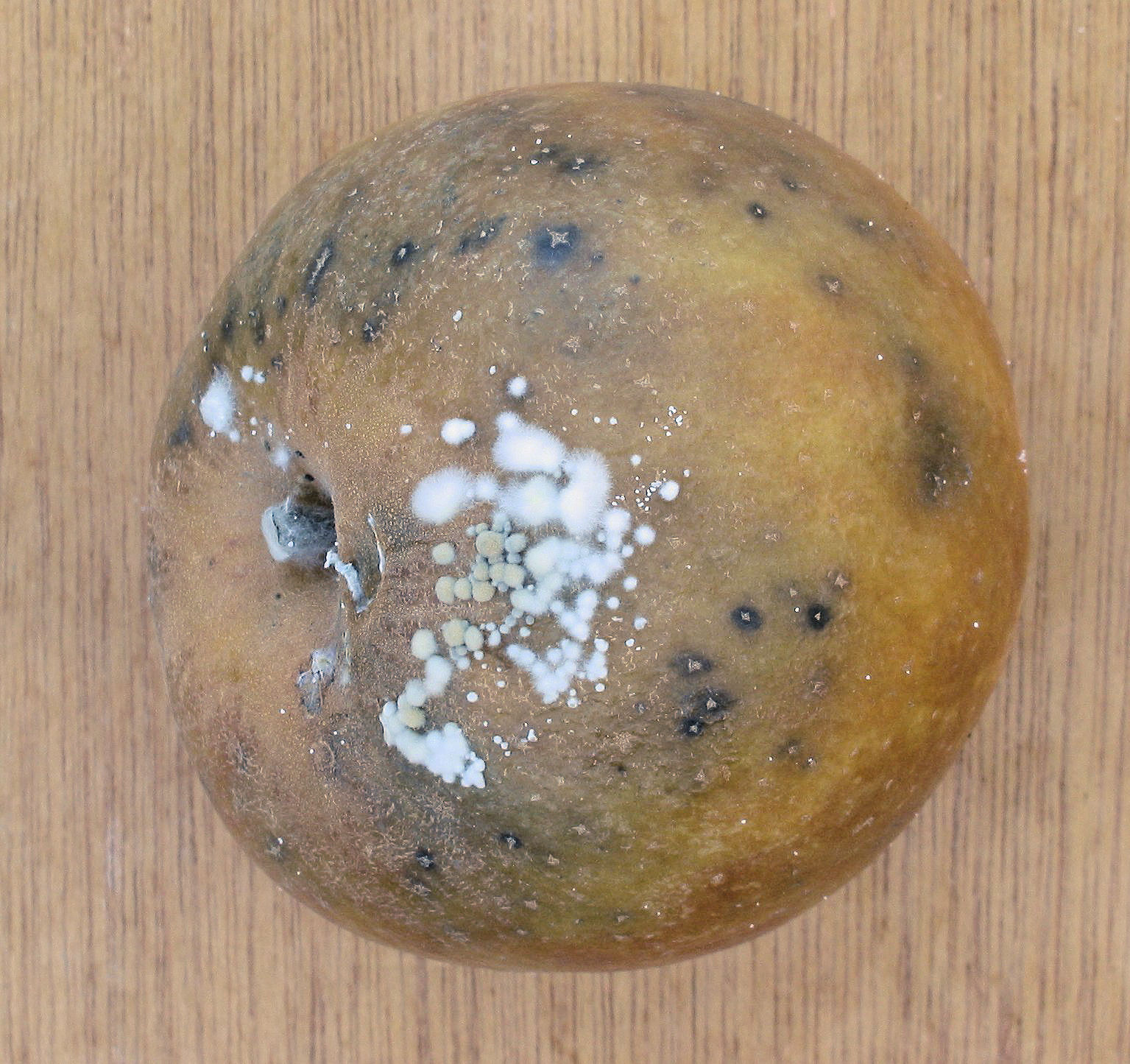 Alkmene apple Moniliniarot Alkmene apple Moniliniarot